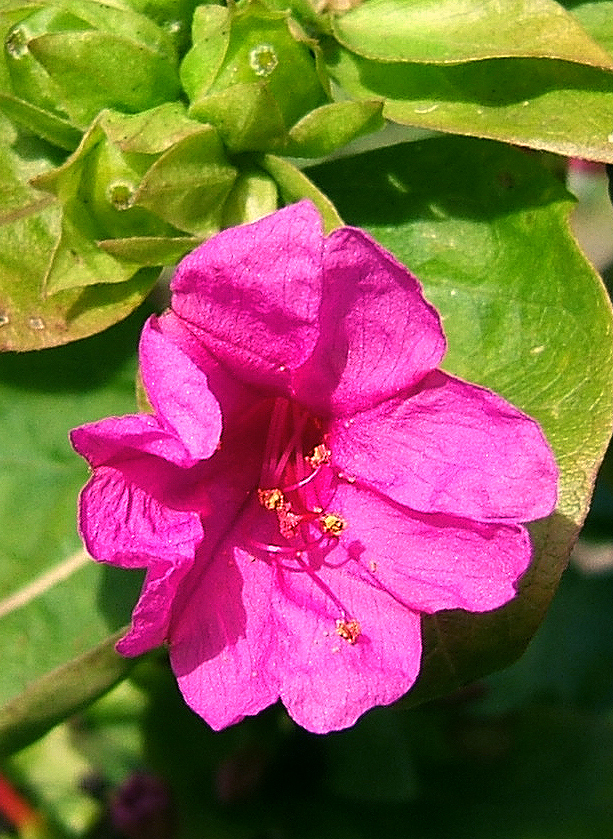 Four o'clock flower, Marvel of Peru